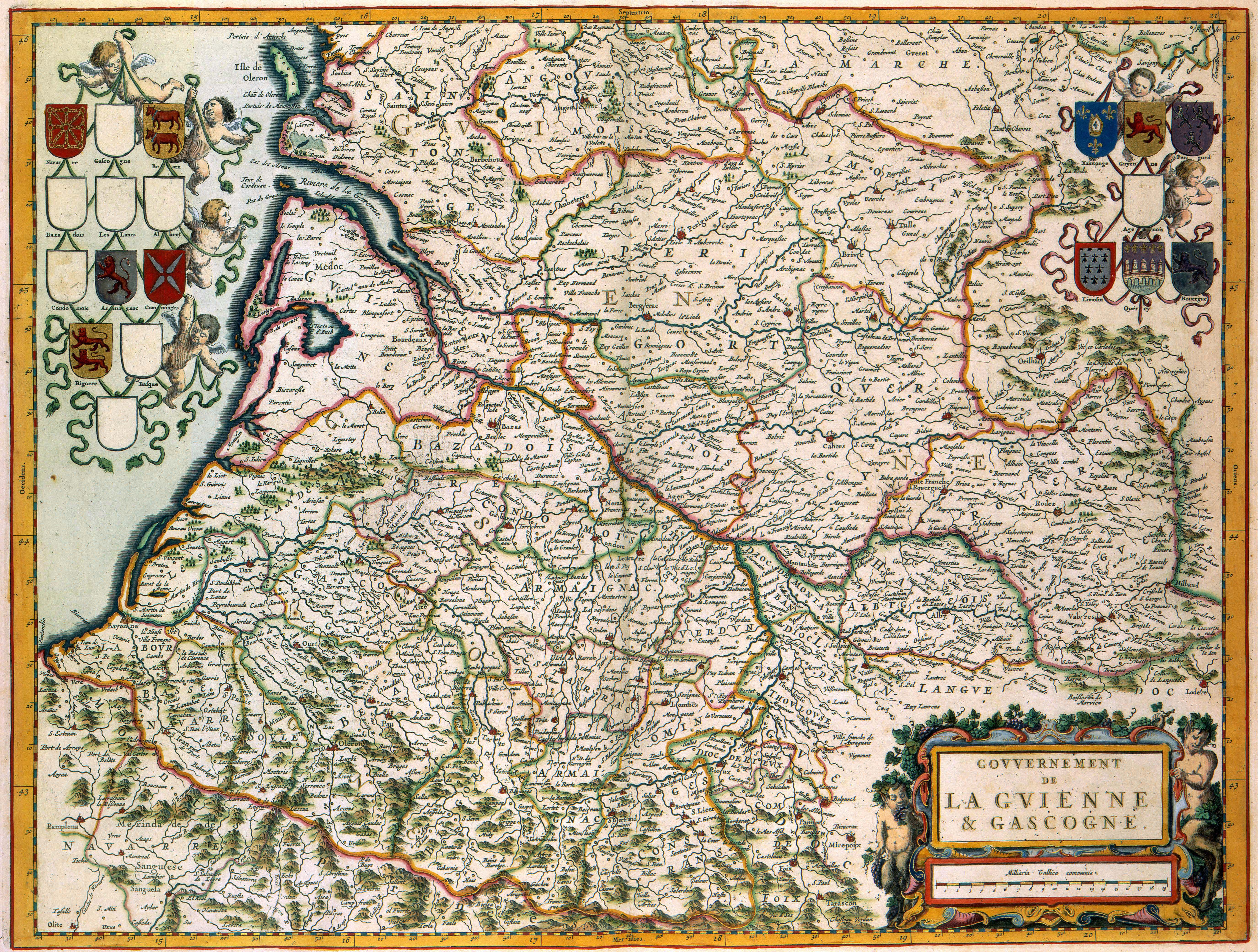 This map of South-West France, including the area of Bordeaux was included in 1662 in the Atlas Maior by Joan Blaeu (1598-1673). The map image was based on a map with the same title by Nicolas Sanson (1600-1667) from 1650.